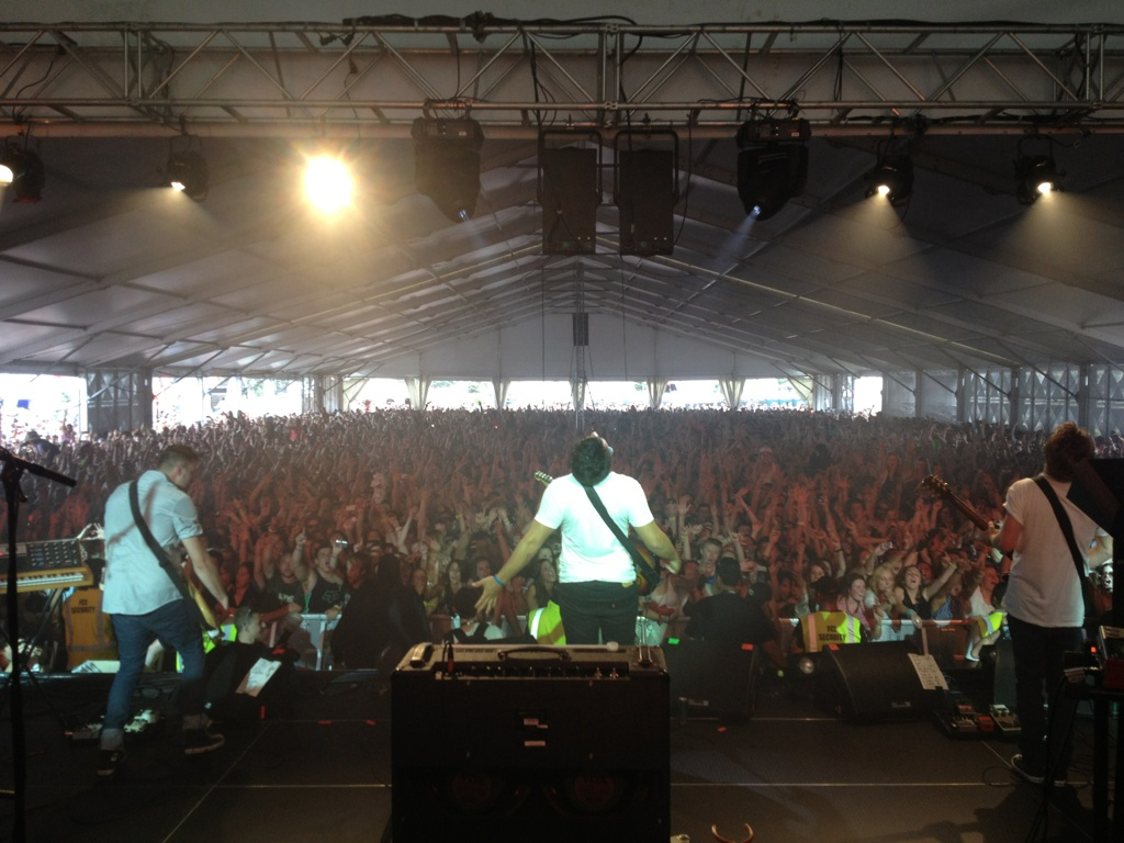 six60